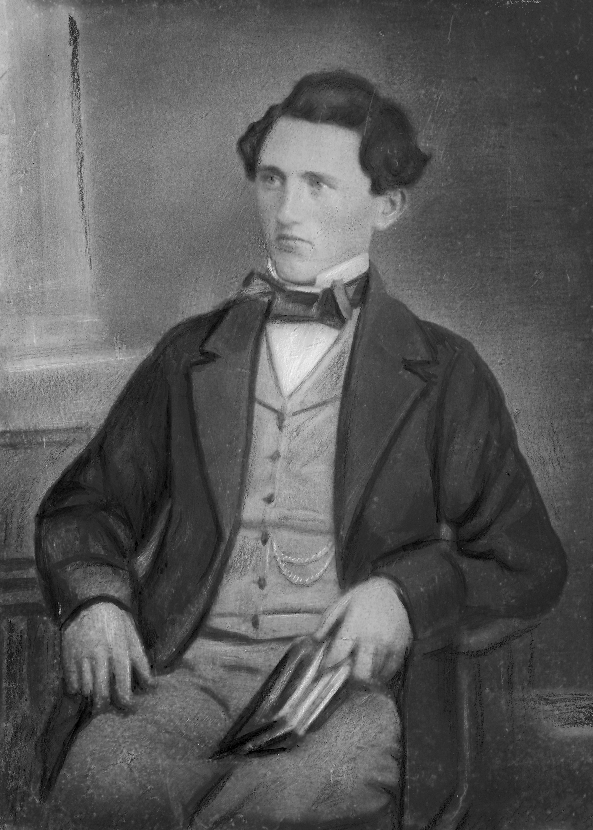 William Duncan, twenty-years old.